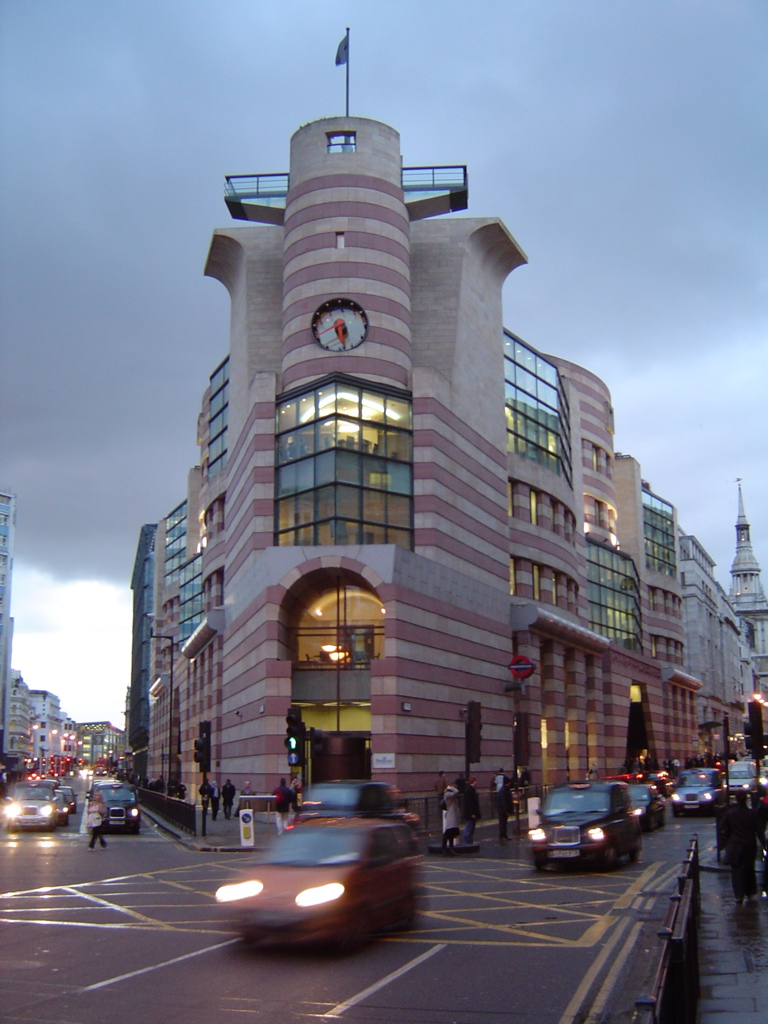 1 Poultry (London, UK) Evening. Image by Gordon Joly, Sony Cybershot, DSC-P72